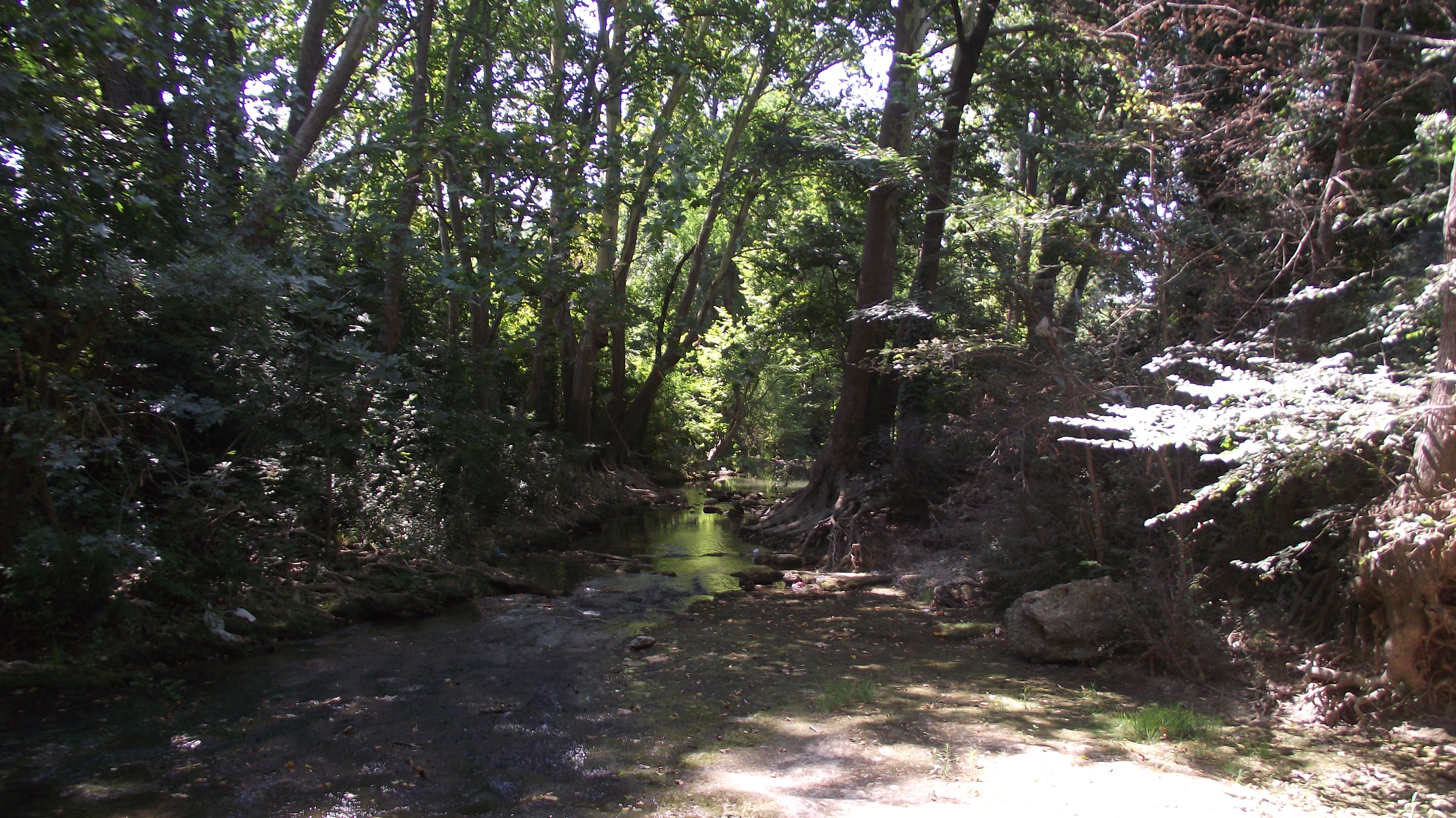 Mosson river by Juvignac